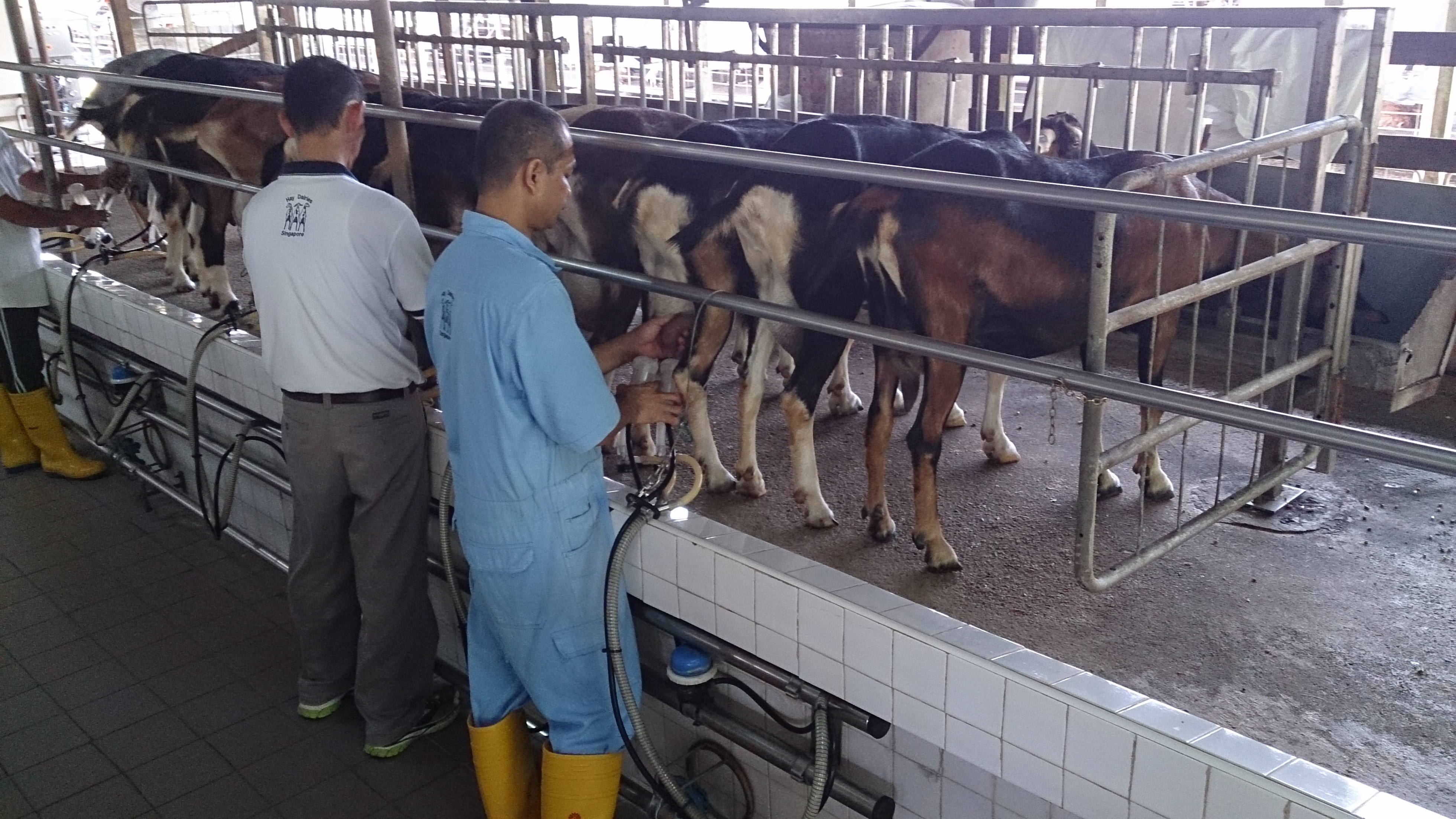 Goats at Hay Dairies (Goat Farm), Singapore